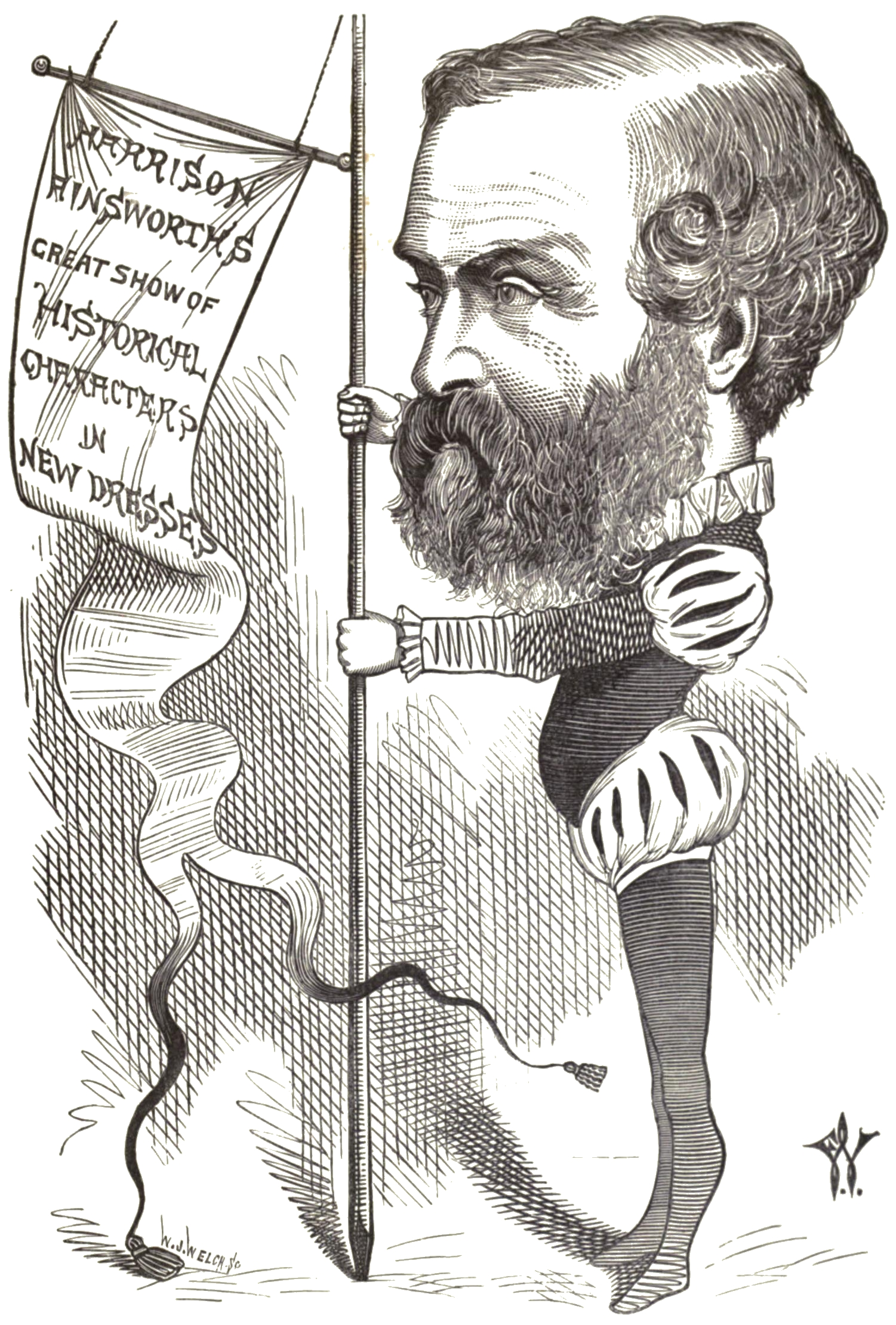 William Harrison Ainsworth. The biographer of Jack Sheppard. from Cartoon portraits and biographical sketches of men of the day